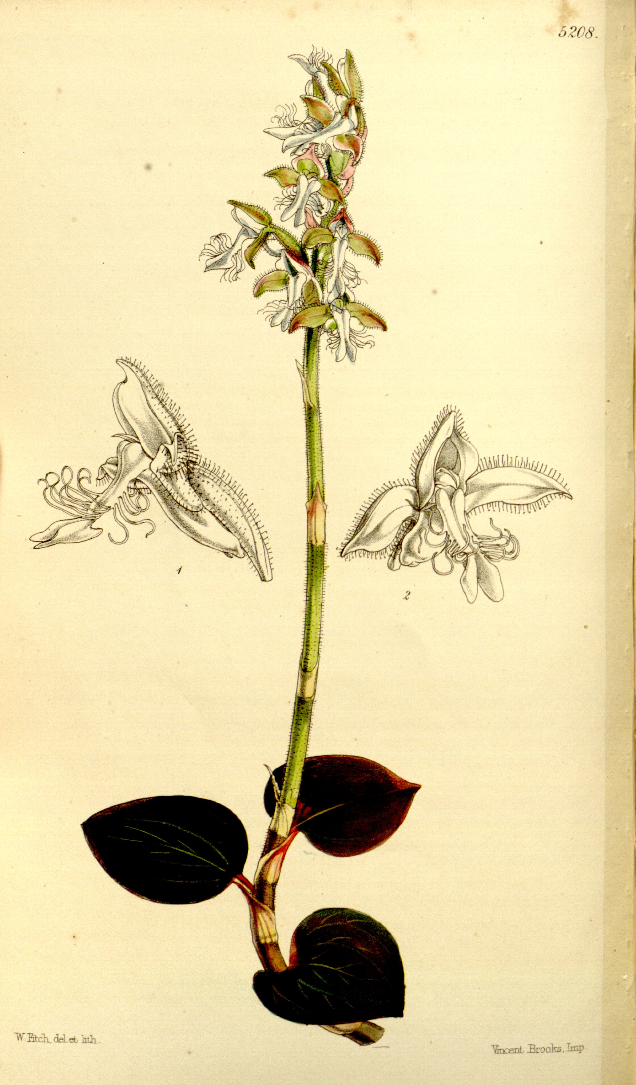 Illustration of Anoectochilus setaceus (var. inornatus)